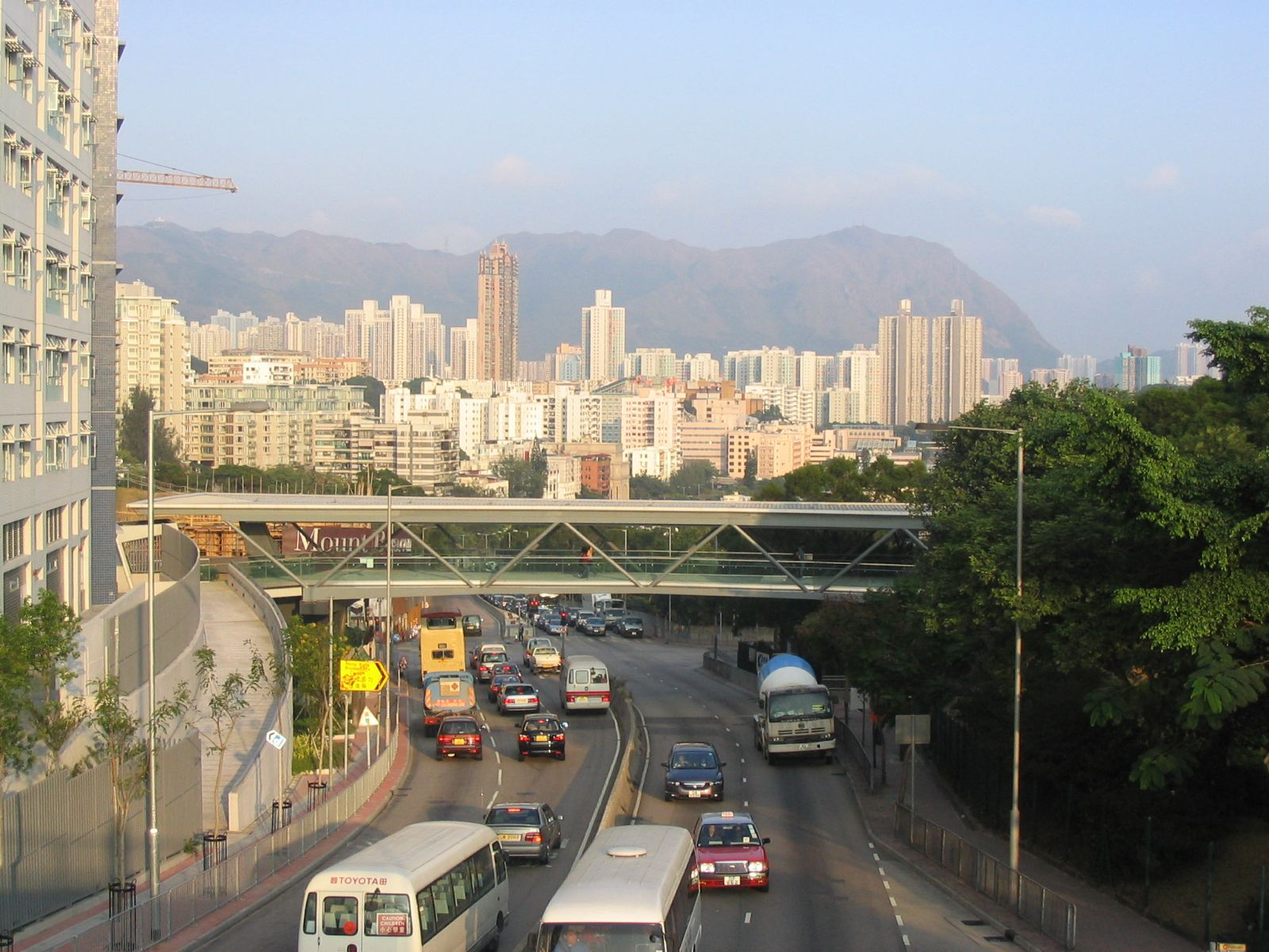 歌和老街近香港城市大學 Cornwall Street, near City University of Hong Kong